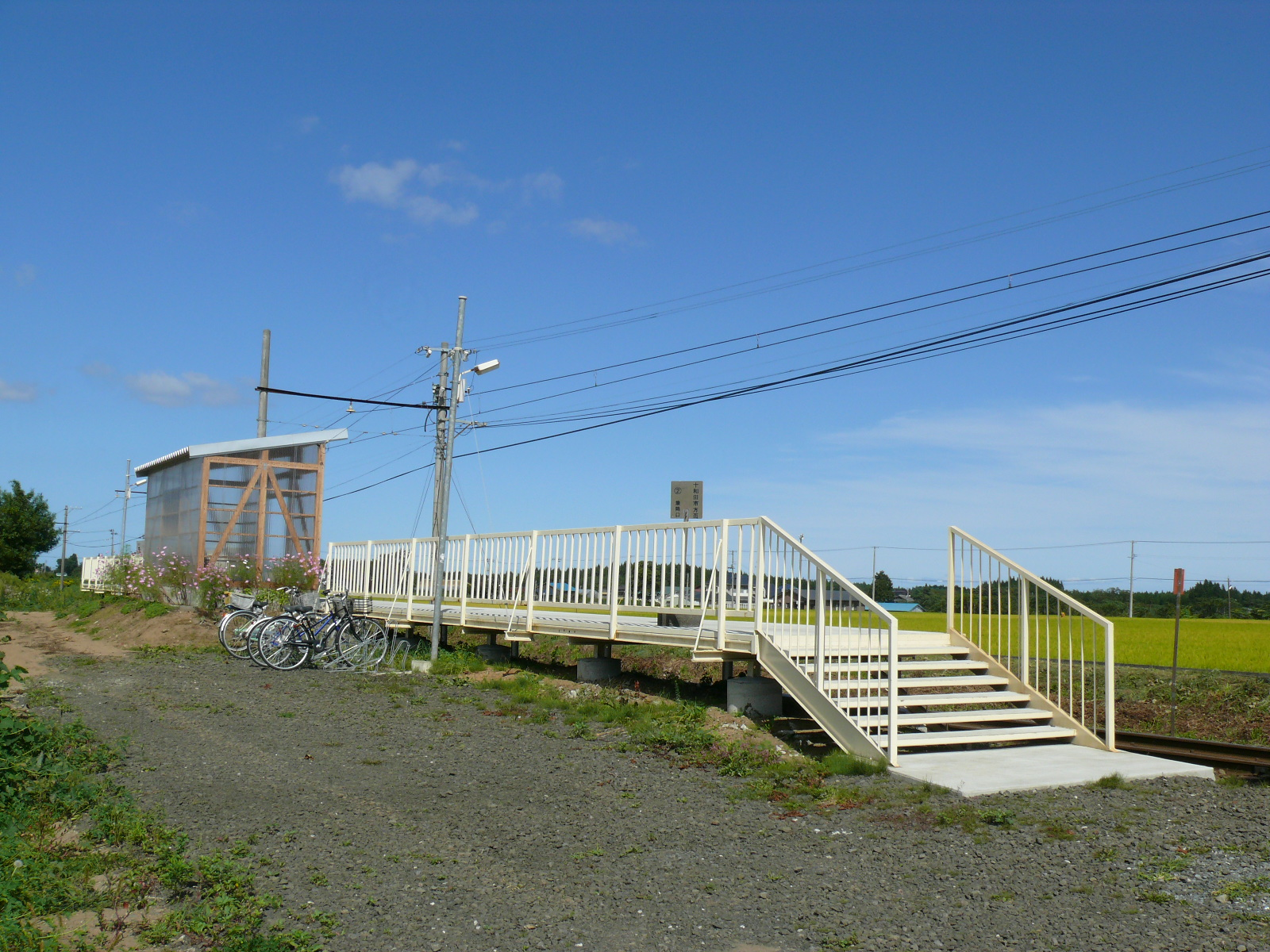 Towada Kanko Electric Railway Omagari Station,Aomori,Japan.